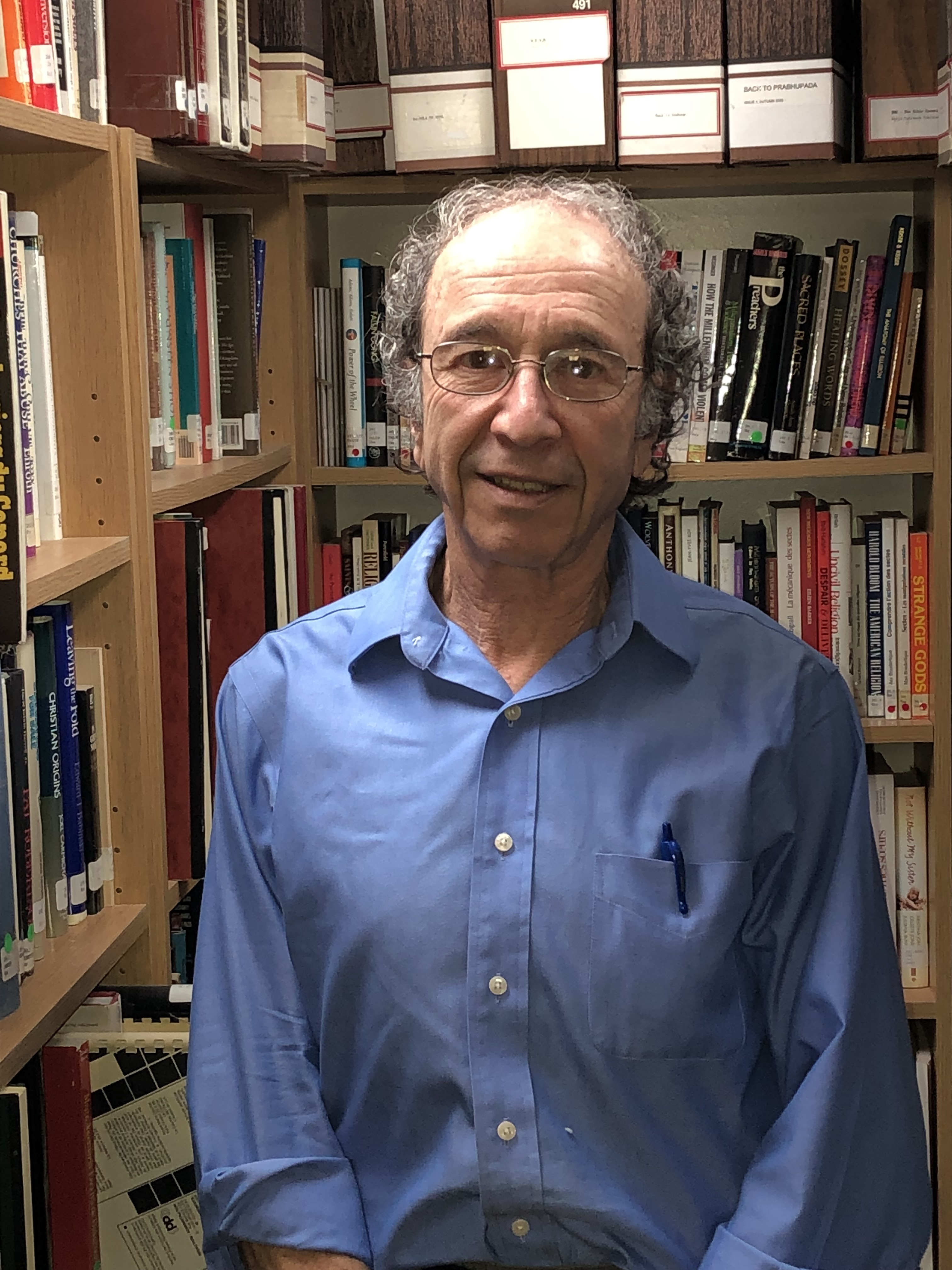 Mike Kropveld, in the office of Info-cult, a Canadian non-profit organization providing information on religious cults and related topics.